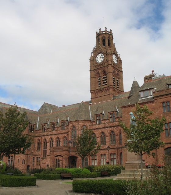 The Town Hall at Barrow-in-Furness. Author's description: "The centre of Barrow-in-Furness is dominated by its fine red sandstone Town Hall. The building was the result of an architectural competition held in 1877, the winner of which was Belfast architect W. H. Lynn (1829-1915), a specialist in the design of imposing civic buildings in the Victorian Gothic style (other surviving examples of his work are the town halls at Chester and at Paisley, and the Belfast Central Library). Construction of the Barrow-in-Furness Town Hall did not run smoothly. The Council's constant cost-cutting in its design delayed the start of construction until 1882, and work was later hampered by cracks appearing in its central tower - the results of economies forcing the contractor to use poor quality sandstone - which had to be dismantled and rebuilt. To reduce its weight the rebuilt tower was 13 feet shorter than originally designed. The Council's parsimony even extended to querying Lynn's purchase of a pitch-pine flagstaff when Norwegian spruce had been specified, though the difference in cost can only have been a matter of a few pounds and the pitch-pine was ready to hand in the nearby docks. The Town Hall's completion coincided with Queen Victoria's Golden Jubilee in the summer of 1887, when the Marquis of Hartingdon turned a golden key to symbolically open the building."